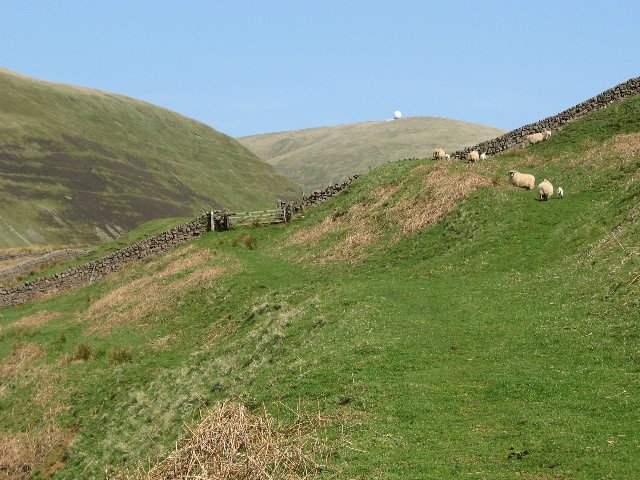 Footpath to Enterkin Pass The path to the Enterkin Pass appears to be little-used. This view looks northwards along the route of the path, with the golf-ball radar installation on top of Lowther Hill visible in the background.